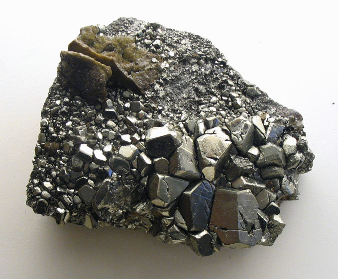 Pyrite formations. Photograph taken at the Natural History Museum, London.